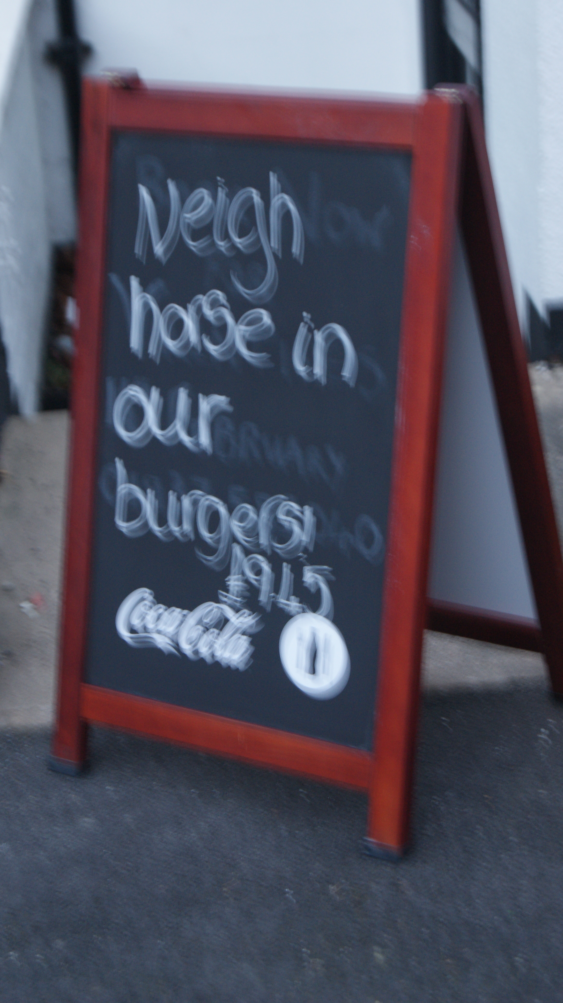 'Neigh Horse in our burgers! - £9.45', cashing in on the 2013 horse meat contamination scandal, and selling extremely expensive burgers - £9.45!!!! at the Swan and Talbot, North Street, Wetherby, West Yorkshire. Taken on the evening of Friday the 15th of February 2013.